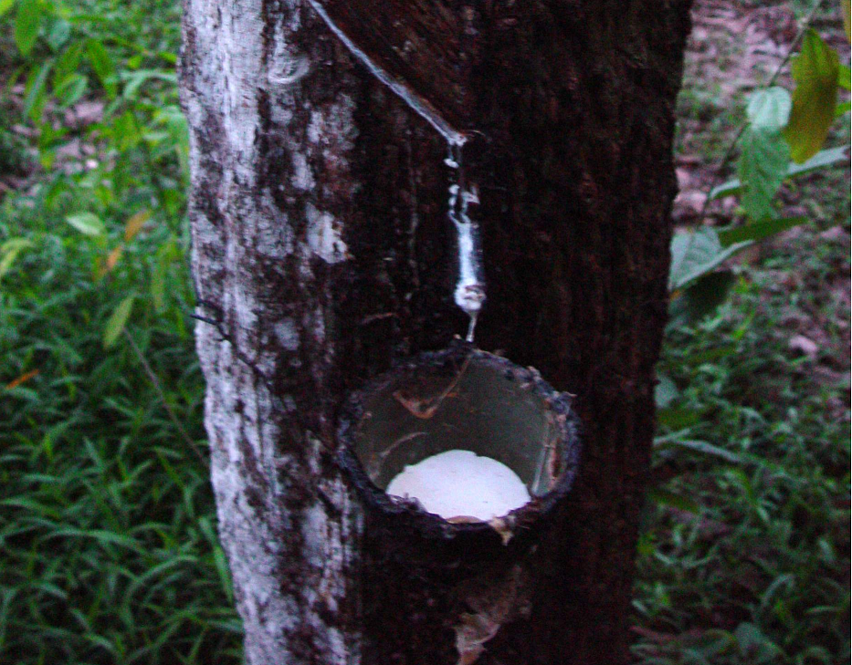 Latex being collected from a Para rubber tree, Hevea brasiliensis. Rubber plantation in Phuket, Thailand.